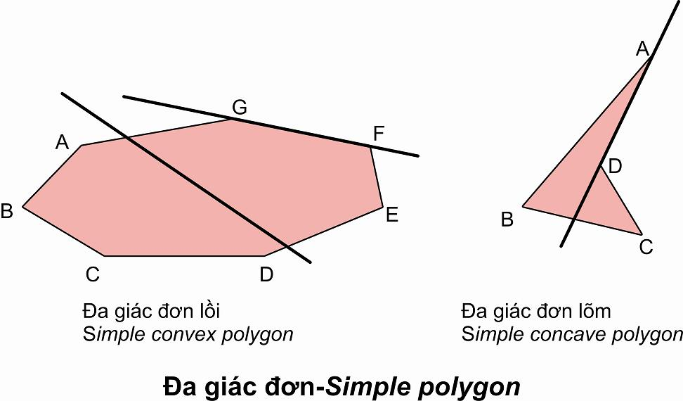 Đa_giác_đơn-Simple_polygon